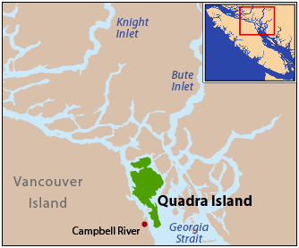 This is a locator map of Quadra Island. I, Pfly, made it with ArcGIS, Adobe Illustrator, and Adobe Photoshop. The coastline data is from the Digital Chart of the World.